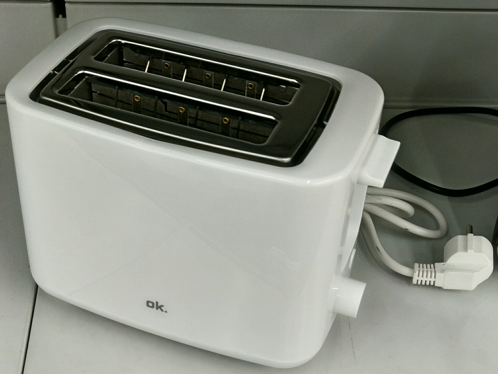 OK. Toaster